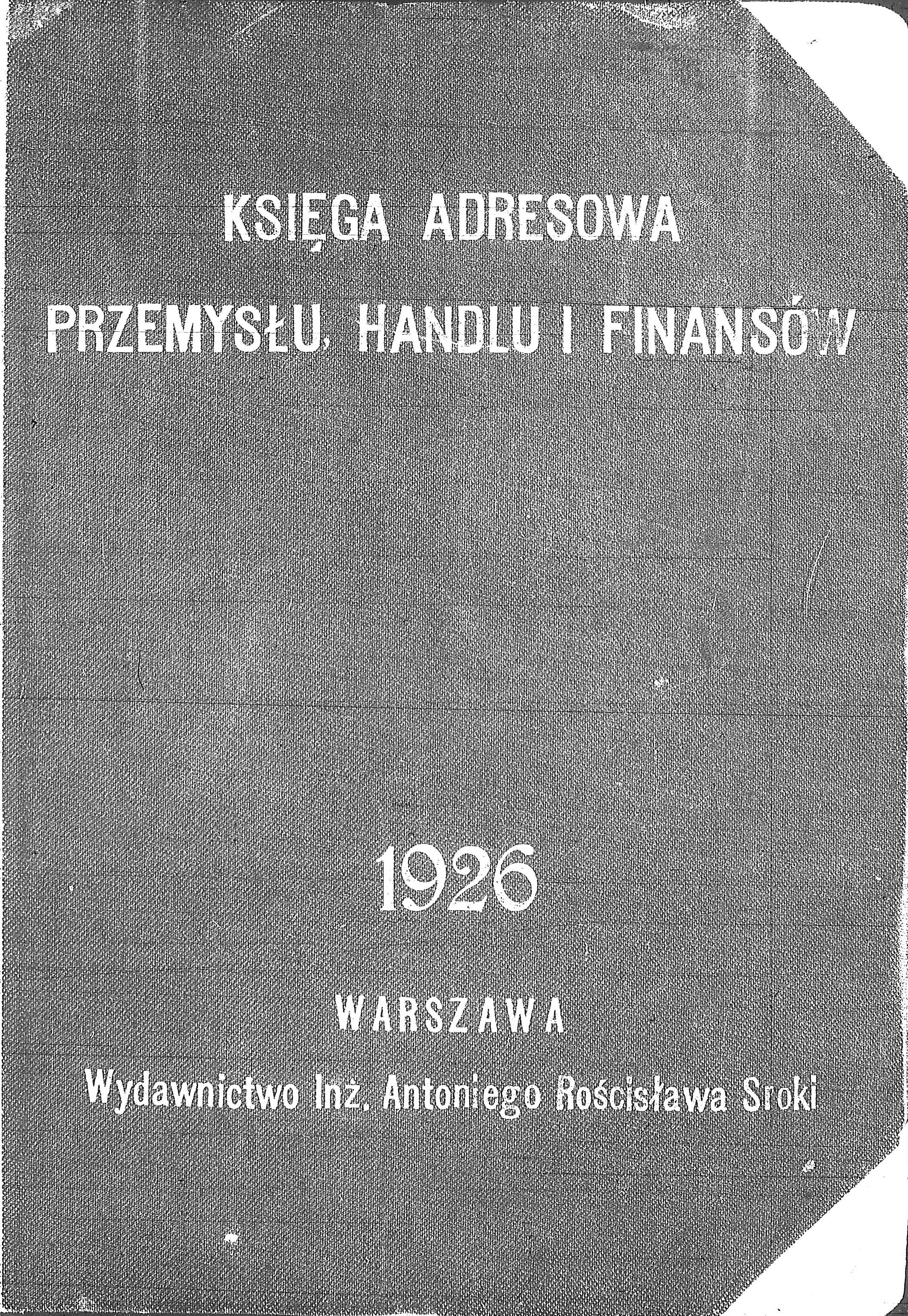 useful or non-artistic objects